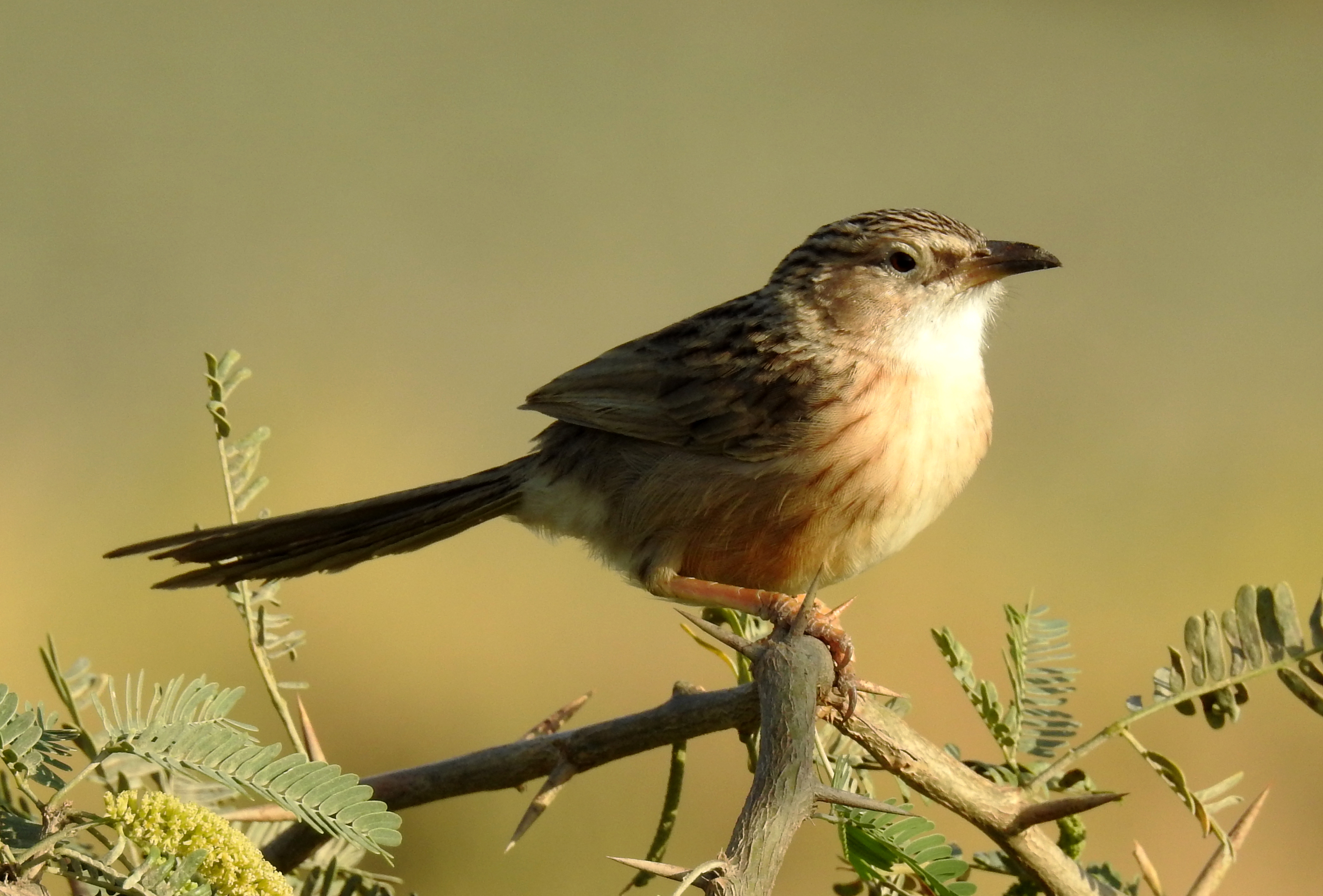 Common Babbler Turdoides caudata. Photo by Dr. Raju Kasambe taken at Porbandar, Gujarat.